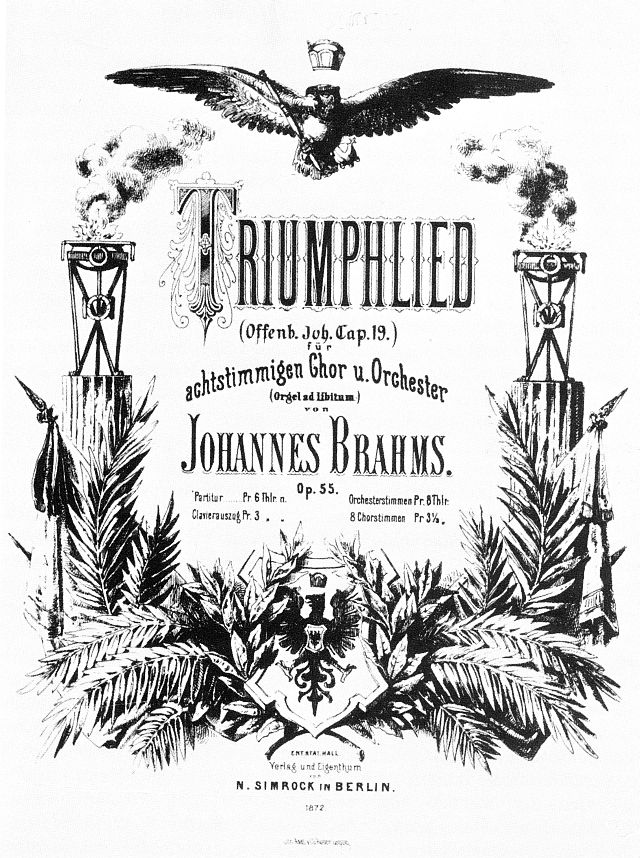 Johannes Brahms: Triumphlied op. 55, front page score, first edition. Berlin, N. Simrock, 1872